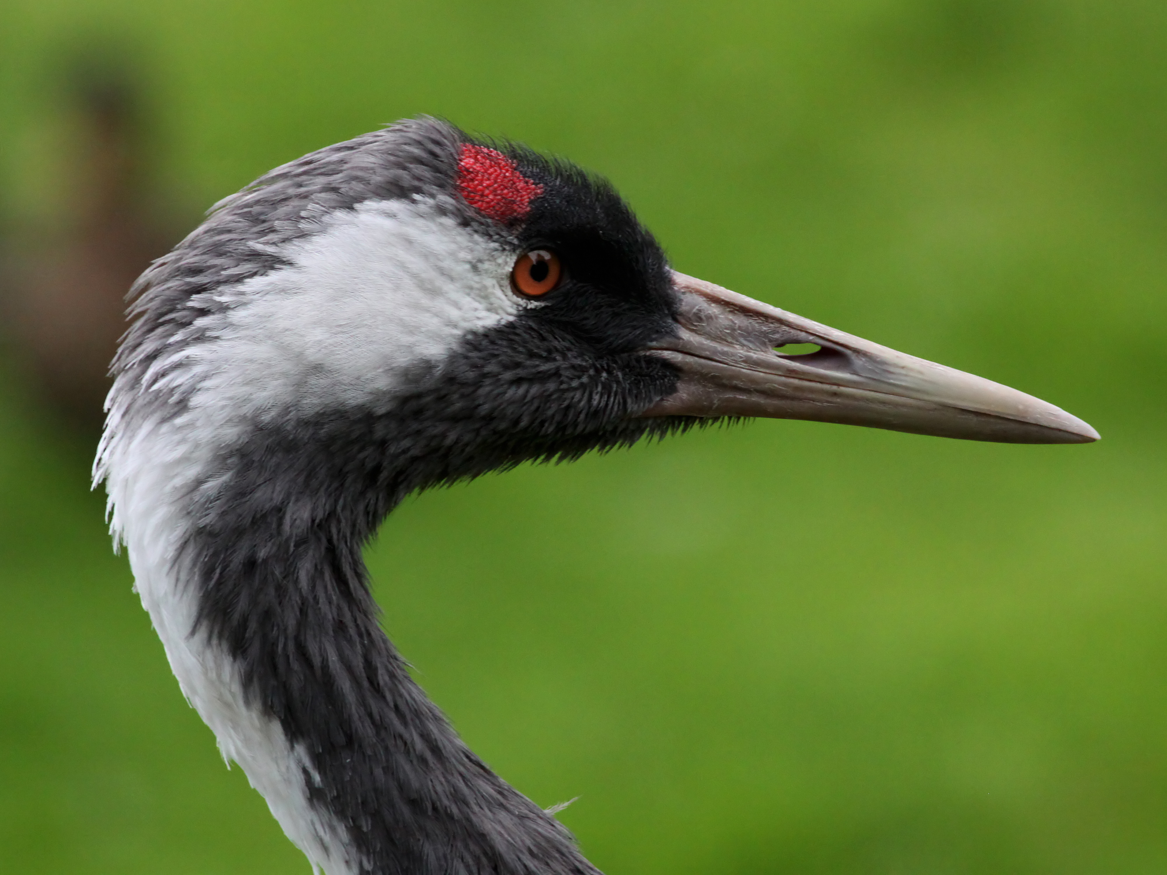 Crane (Grus grus) Photo taken at Martinmere, Lancashire, UK